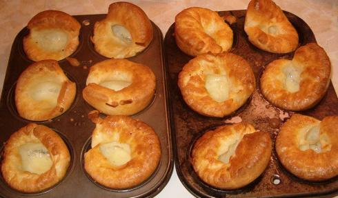 Author is user Canadianmusic. I wish to have this go to the Yorkshire Pudding entry with specific metion of the *tin* aspect of the bakeware. The puddings on the left are smaller as they used 2 tbs batter per pudding, graduating to 5 tbs in the ones on the right. Other pics, with puddings being cooked in cast-iron and glass bakeware to follow, contrasting the variations in finished product. Thx